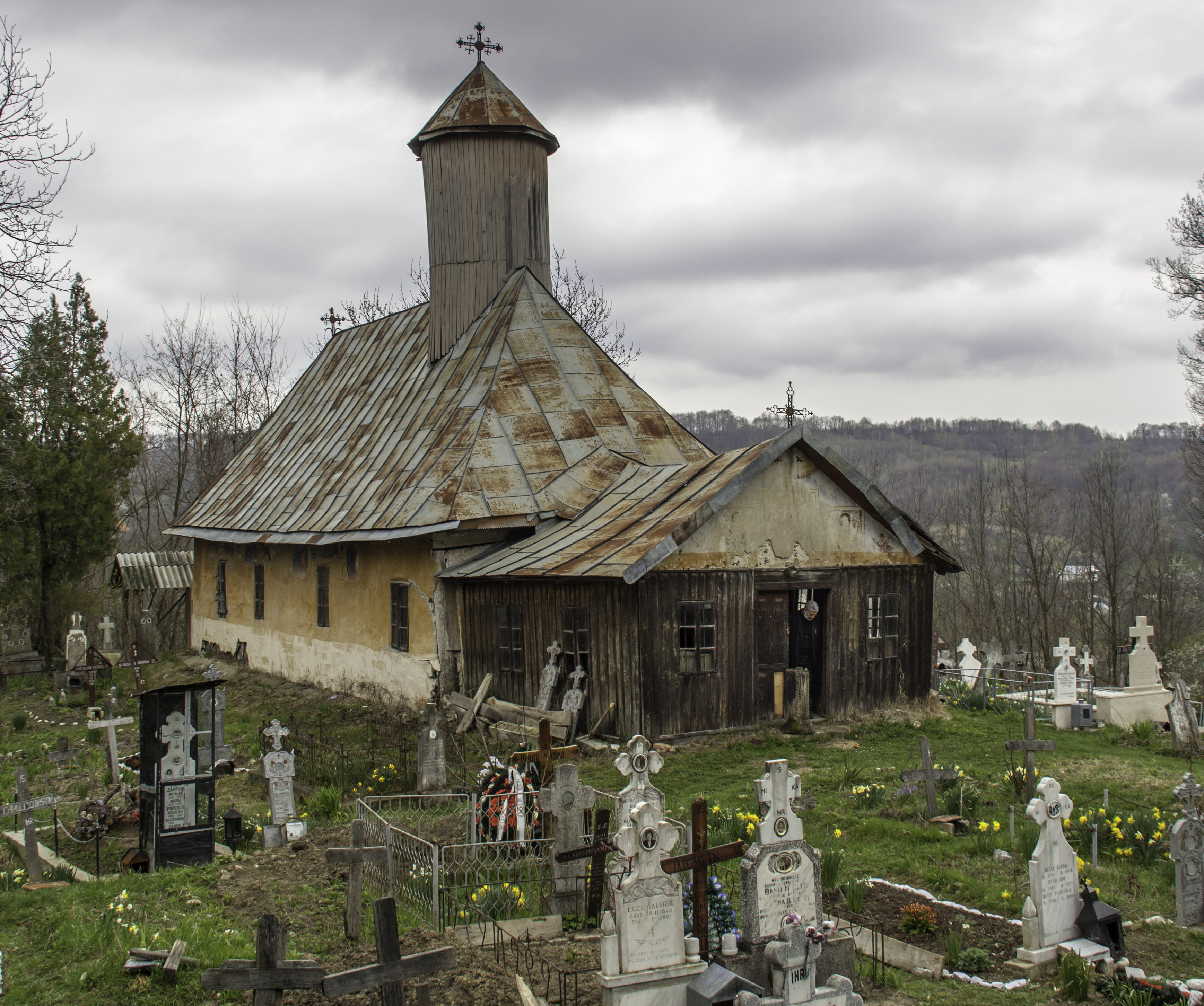 Moșteni-Greci, Argeș, Romania: the wooden church.